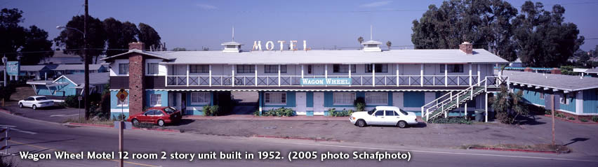 Wagon Wheel Motel, Oxnard CA, USA. 12 unit addition, built 1952. 2005 photo by schafphoto.